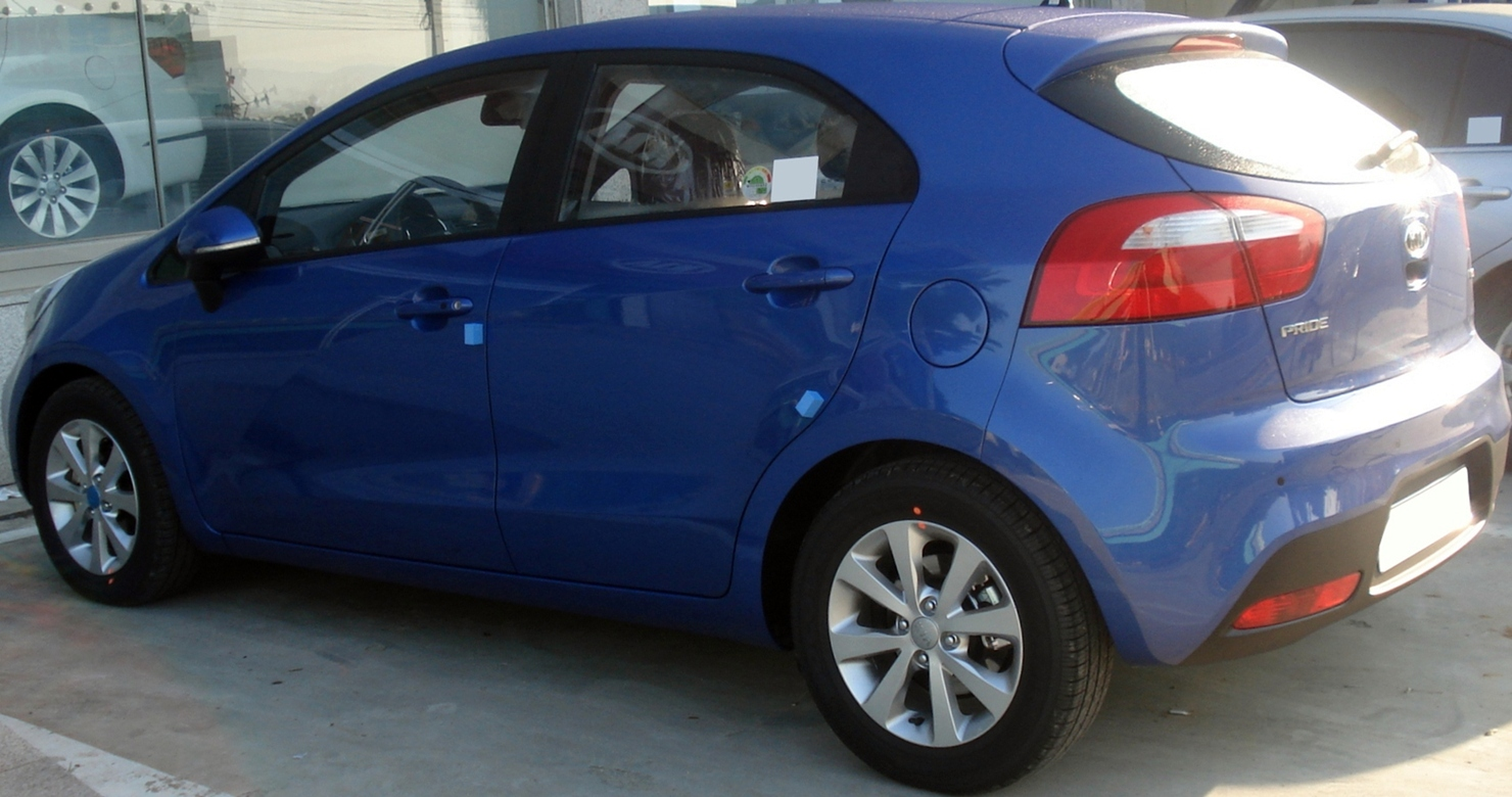 Kia All New Pride